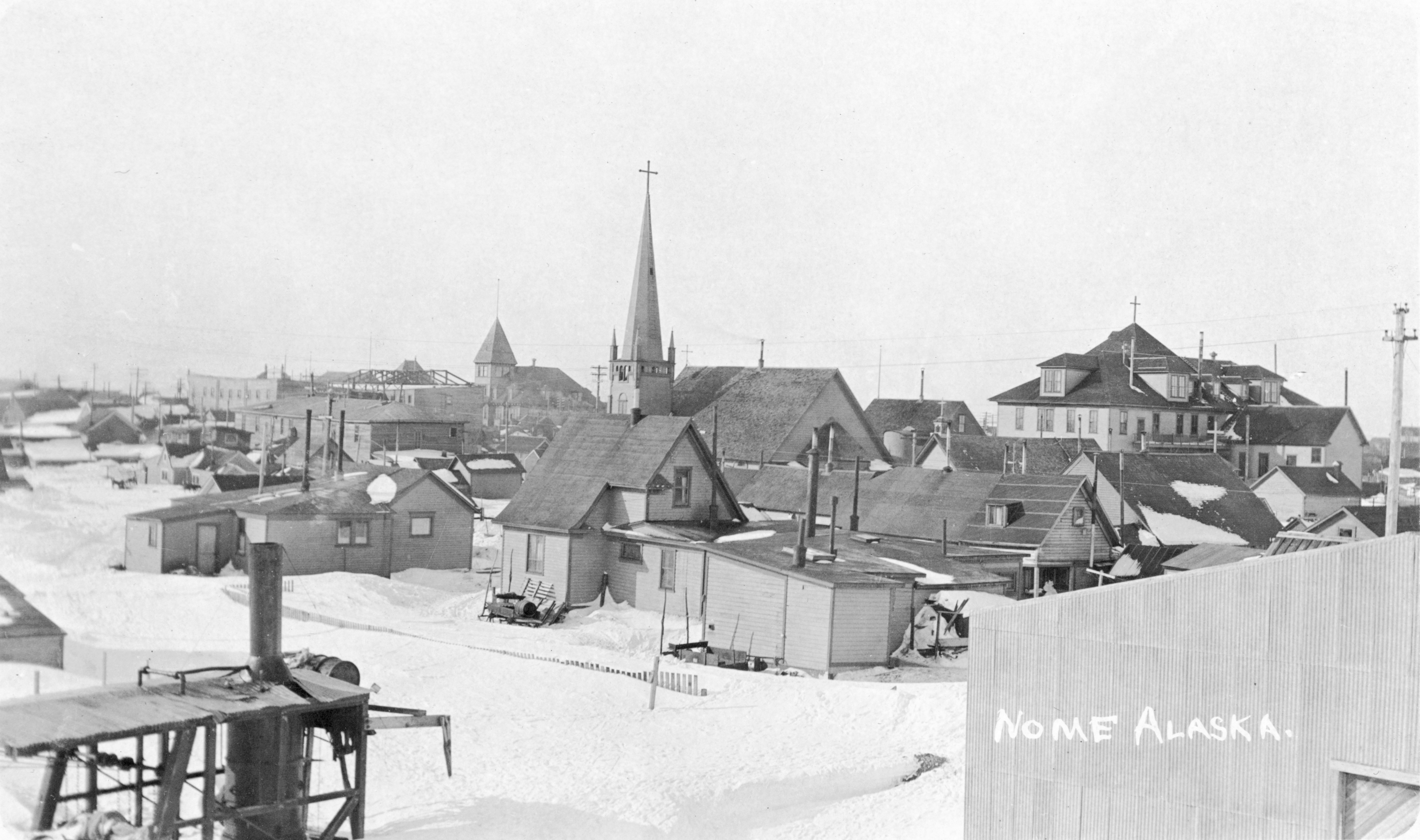 View of Nome with snow on ground